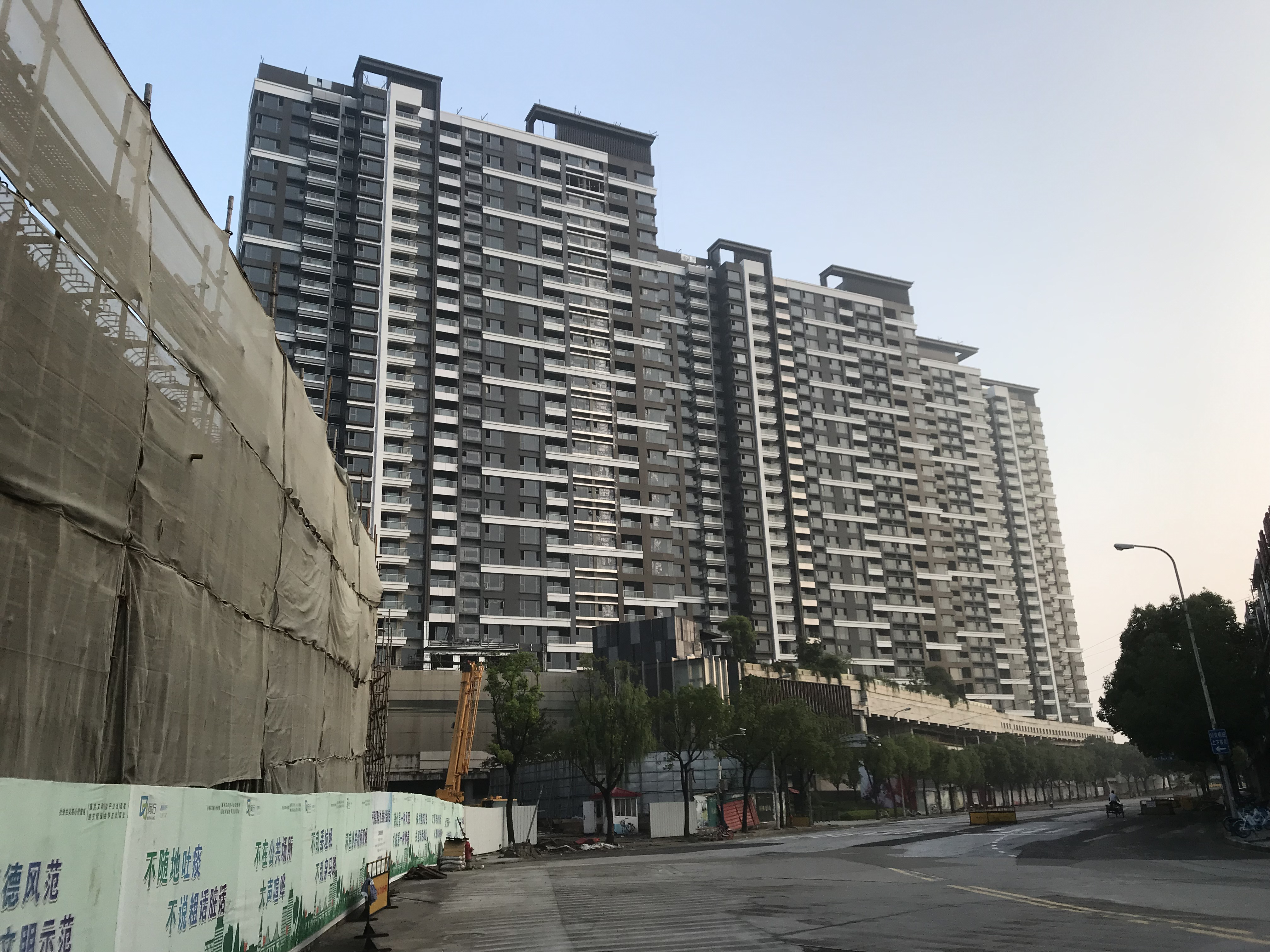 201907 Yuelu of TODTOWN